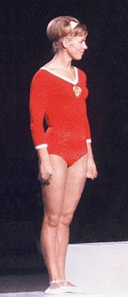 Bronze Medalist Larysa Latynina of Soviet Union on the podium during the Uneven Bars medal ceremony of the Women's Artistic Gymnastics during the Tokyo Olympics at Tokyo Metropolitan Gymnasium on October 23, 1964 in Tokyo, Japan.